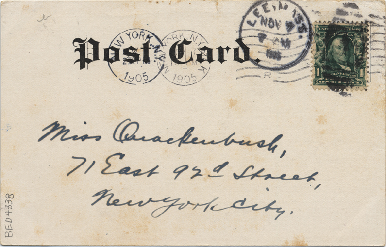 Back of a 1905 undivided back postcard, sent from Lee, Mass. (Nov 7, 1905 postmark) to New York City from Front of post card also downloaded from same source thumb|front of card Address reads (on back) "Miss Quackenbush, 71 East 92d Street, New York City" Front shows the DuPont Gunpowder mills on Brandywine Creek, with handwritten "Lee, Mass. Nov. 3 - 1905 These blow up occasionally and then?"